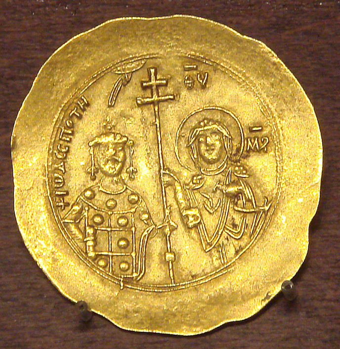 Coin of Jean II Comnene, Virgin And John Holding Cross